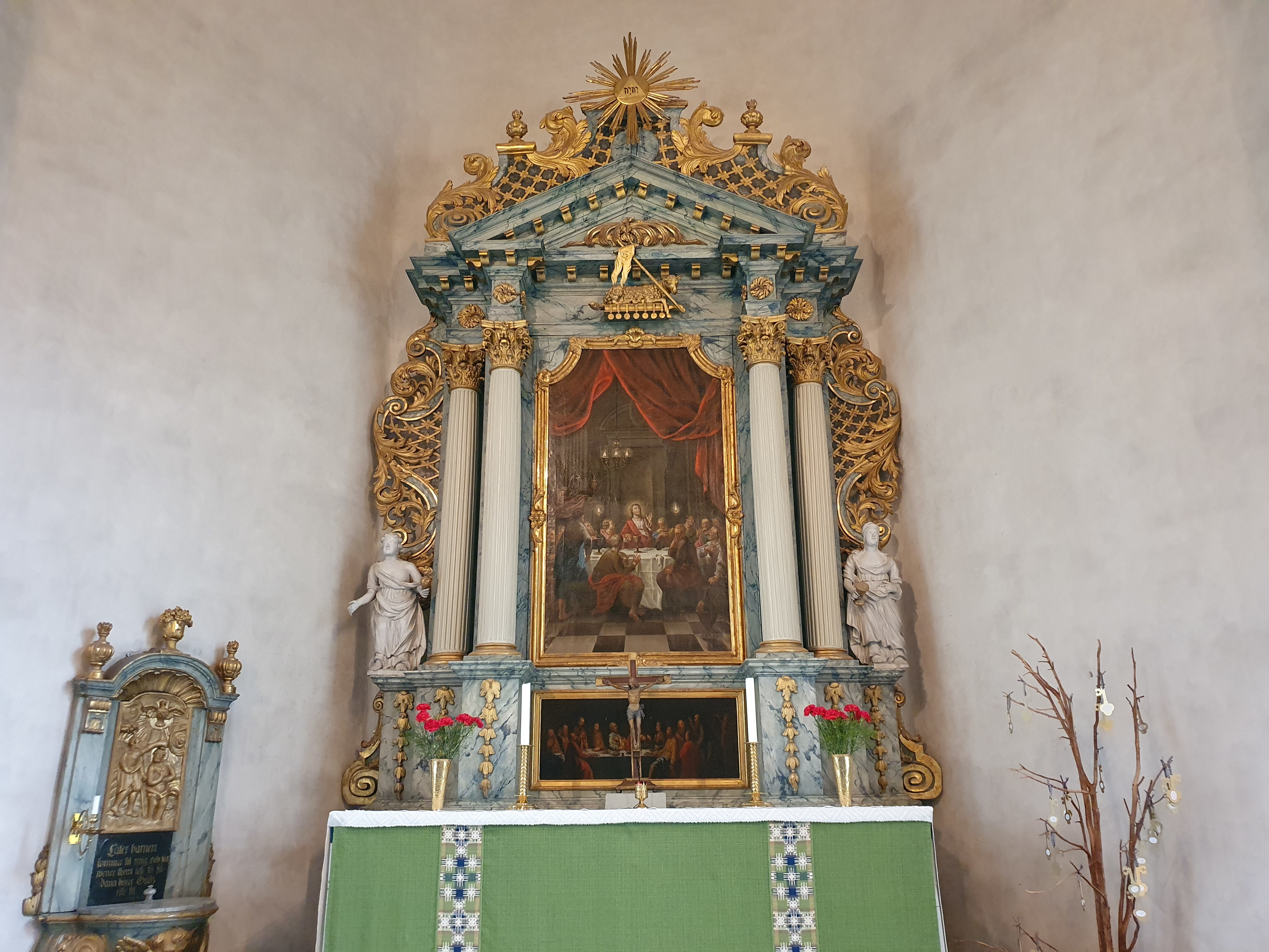 The altar in Leksand Church.